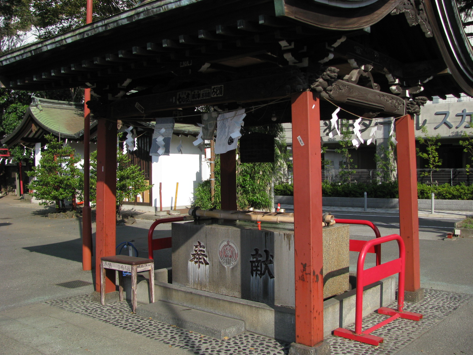 Anamori Inari Jinja (Anamori Inari Shrine) is located in Ota, Tokyo, Japan. This is Chozuya.